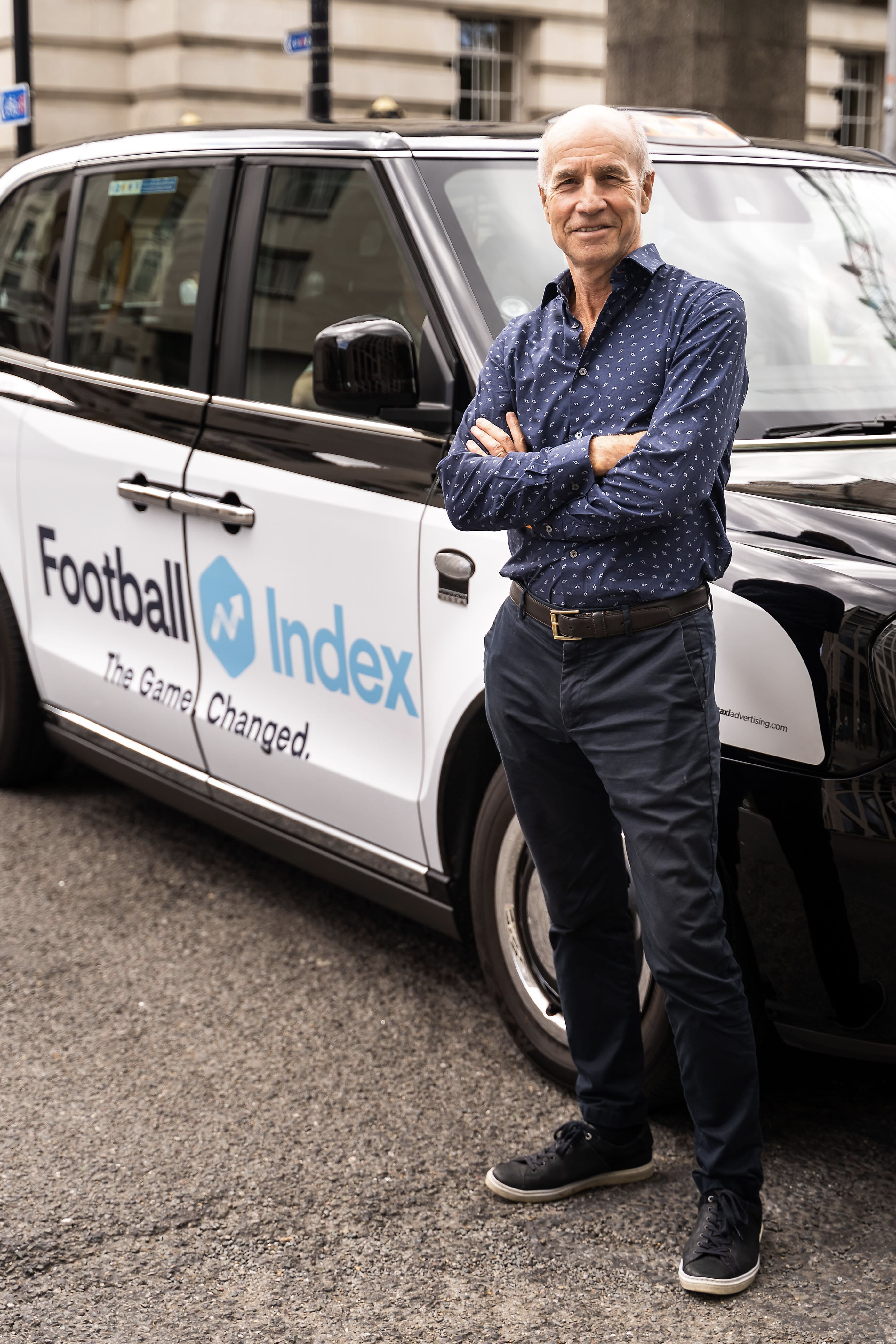 Adam Cole, Football Index CEO and Founder, with a branded taxi.